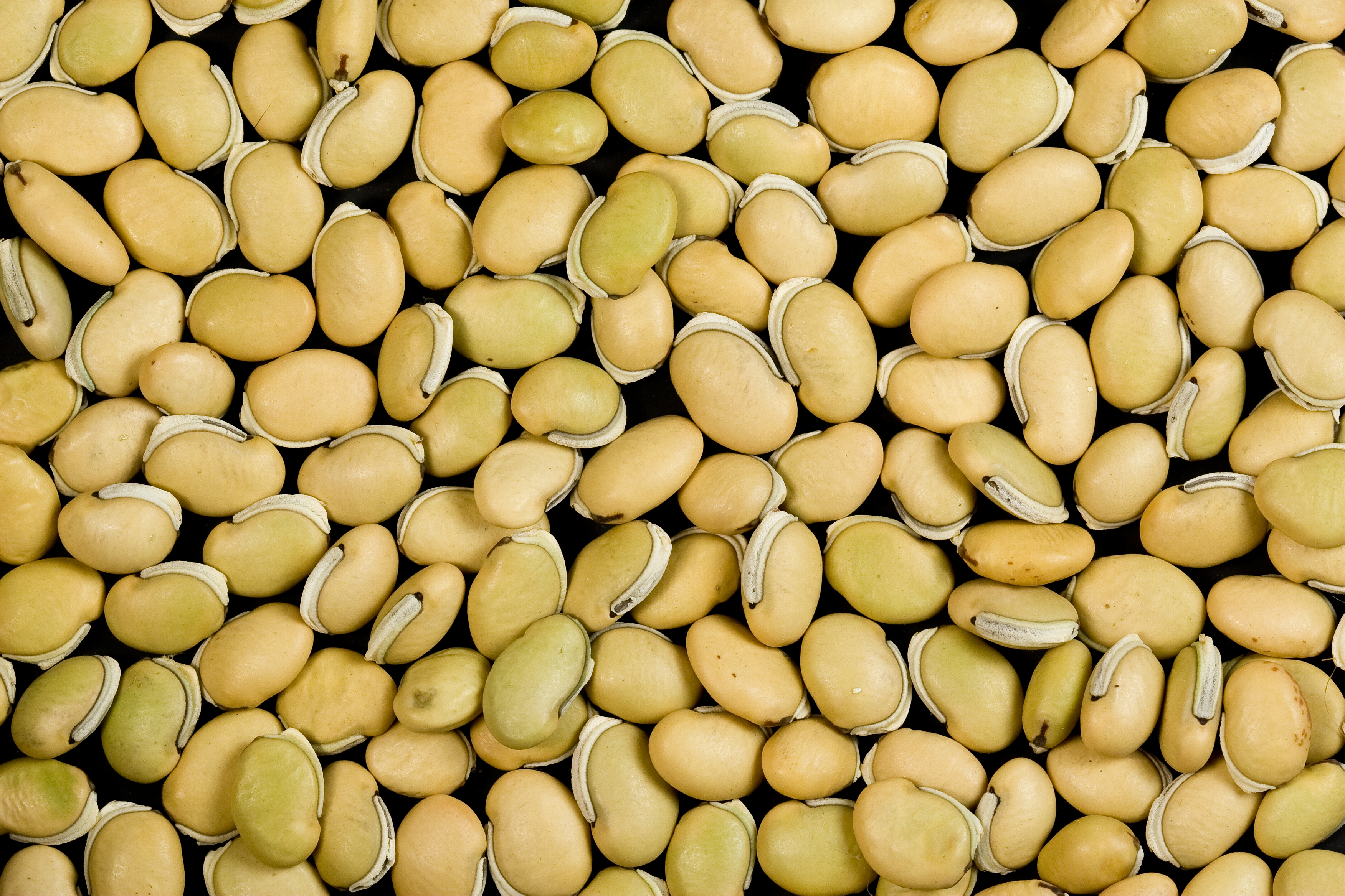 Picture of Val Beans (Dolichos lablab).